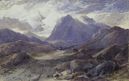 Photograph of Glencoe, Argyllshire, 1864. Watercolour and bodycolour over pencil on paper, by Horatio McCulloch. In the public domain.